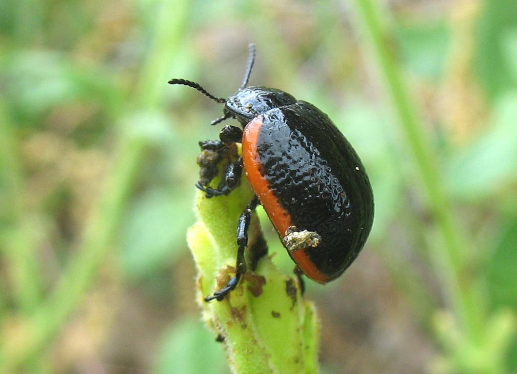 Chrysolina sanguinolenta. El Torno, Cáceres, Spain